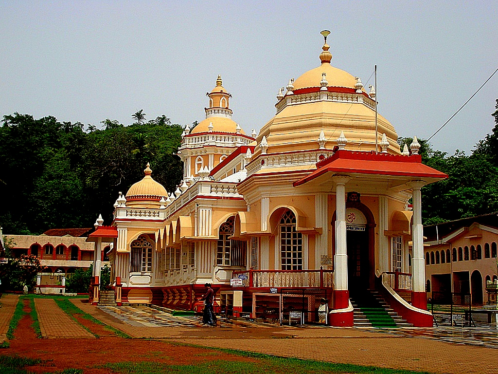 On explore - Jul 18, 2008 #411 Shri Mangesh -- also popularly known as Mangireesh or Manguesh-- is the Presiding Diety at one of Goa's most prominent temples. Shri Mangesh is the Kuladevata (family deity) of millions of Hindu GSBs around the world. The temple of Shri Mangesh is set amidst natural beauty and pleasant surroundings. Mangeshi, a little village along Goa's Panaji-Ponda road is not only a point of pilgrimage for the followers of the Lord, it attracts hundreds of tourists from all over India and abroad.